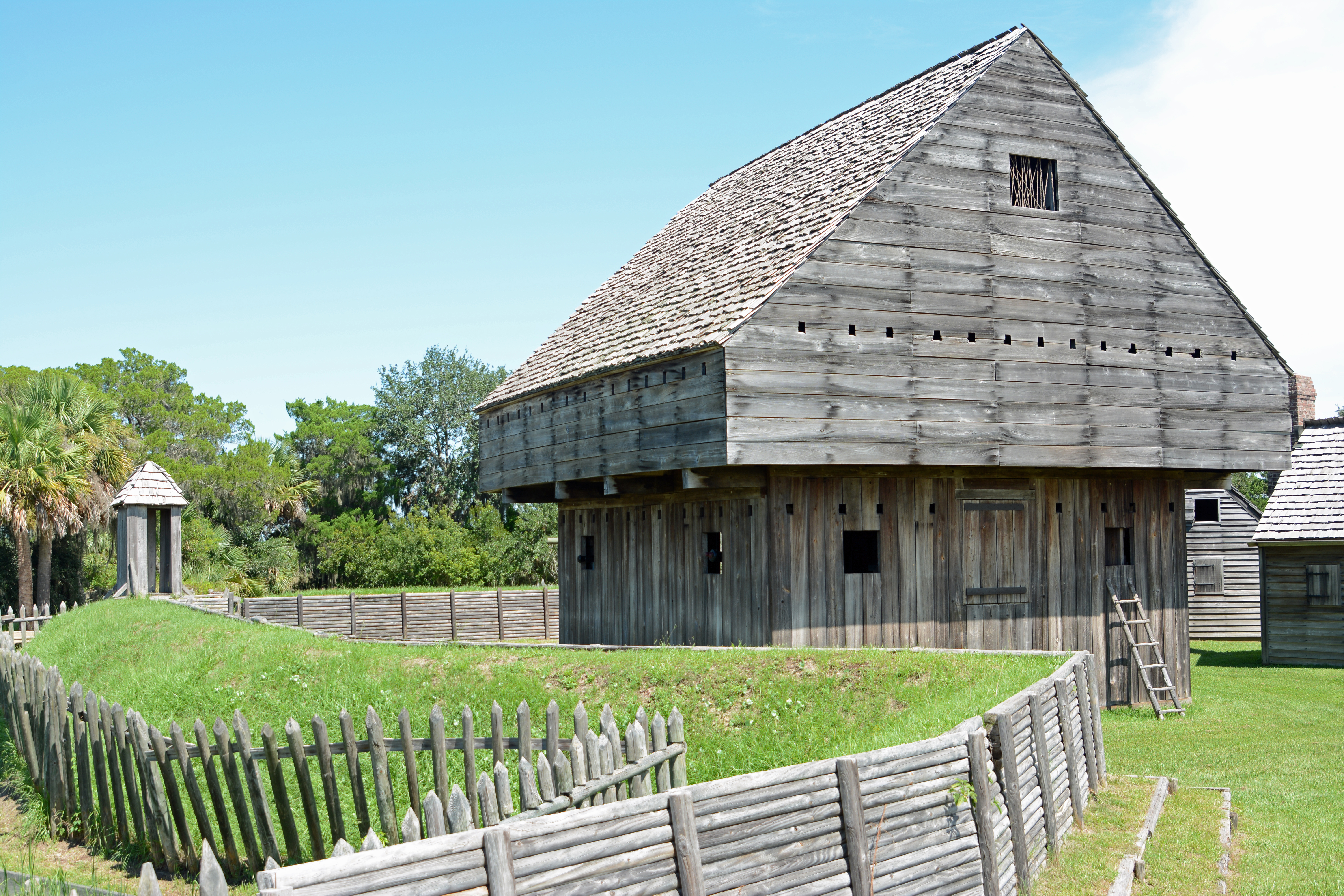 Fort King George and sentry post in McIntosh County, Georgia, US